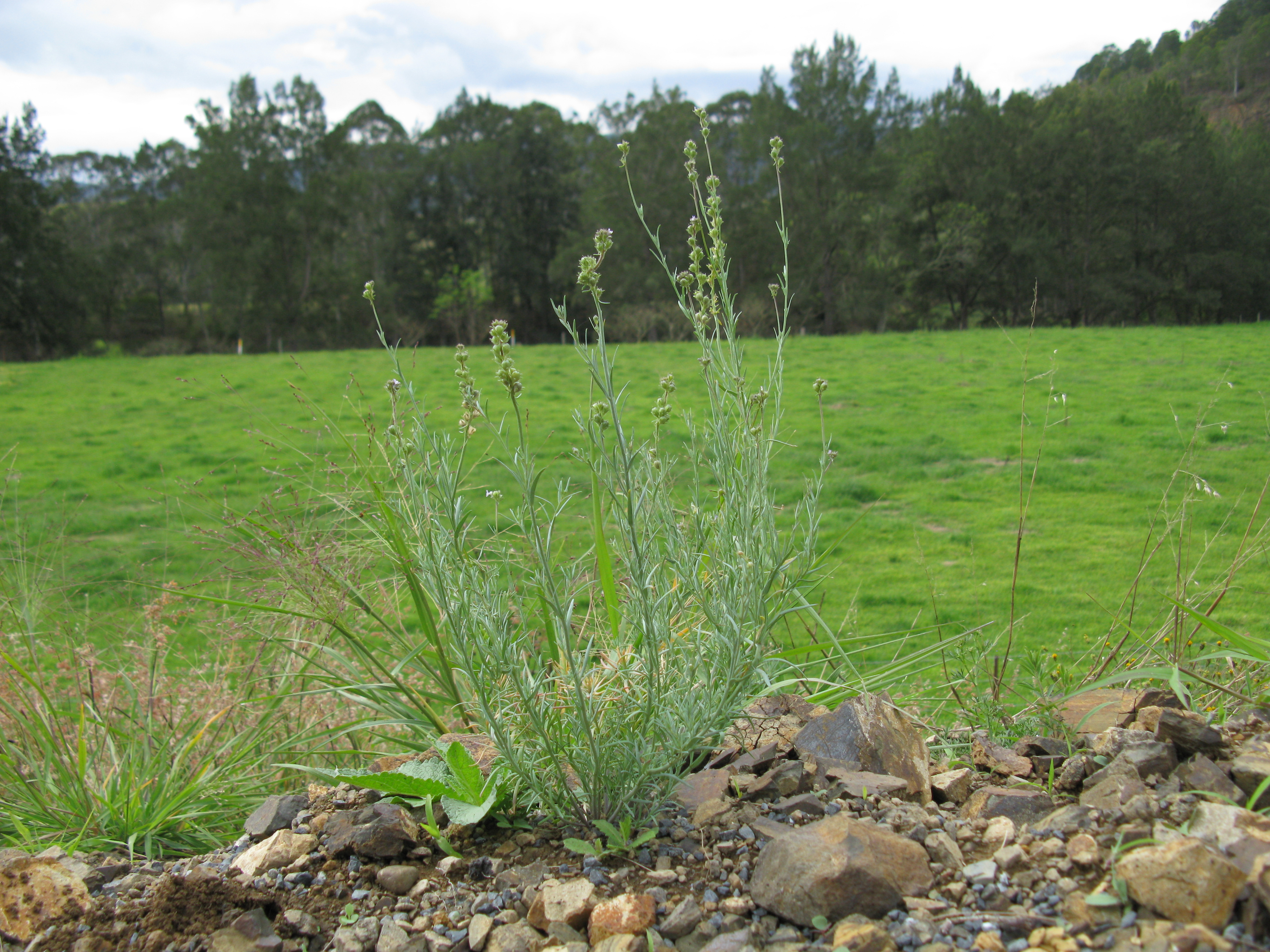 Introduced, cool season, annual erect, glaucous, simple or much-branched herb, 10–40 cm tall; hairless except for glandular-hairy sepals. Leaves are linear to narrow-elliptic and 0.4–3.5 cm long; whorled below, but alternate up the stem. Flowerheads are many-flowered spikes to racemes; at first dense then elongating in fruit. Flowers are nearly sessile, but pedicels are 1–2 mm in fruit. Sepals are 2 mm long. Petals are 2-lipped, 3–4 mm long, pale blue to purple, palate at least sometimes white, and with a spur 1.5–3 mm long and curved; upper lip pointed outwards, lower lip longest, recurved. Fruit are rounded capsules 3–4 mm long. Flowering is in spring. Found chiefly in disturbed sites along roadsides and railway lines, or in pasture, and in forest and woodland.